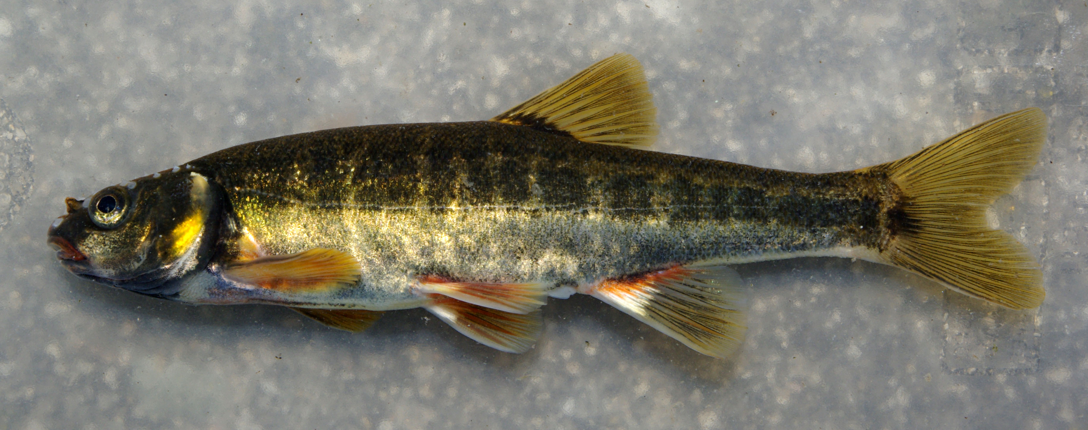 Minnow (Phoxinus bigerri). River Arlanza (Douro basin), near Quintanar de la Sierra, Burgos (Spain)